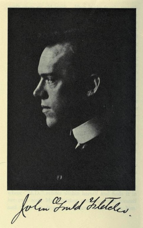 Photographic portrait of American writer John Gould Fletcher (1886-1950). From Tendencies in Modern American Poetry by Amy Lowell. New York: The MacMillan Company, 1917, p. 281. Includes replicated signature.